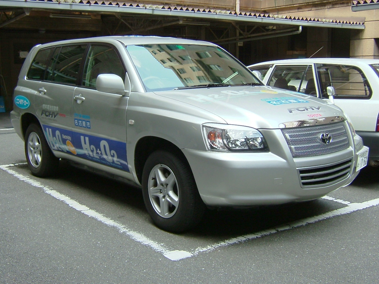 TOYOTA FCHV(Fuel Cell Hybrid Vehicle). The fuel cell hybrid car which runs from the hydrogen which Toyota Motor developed. Toyota FCHV which took a photograph is one of the sets which has only 12 sets in the Japan and the U.S. which Nagoya-shi is using as a public vehicle. The contributor took a photograph by taking an appointment to the Nagoya environmental office.